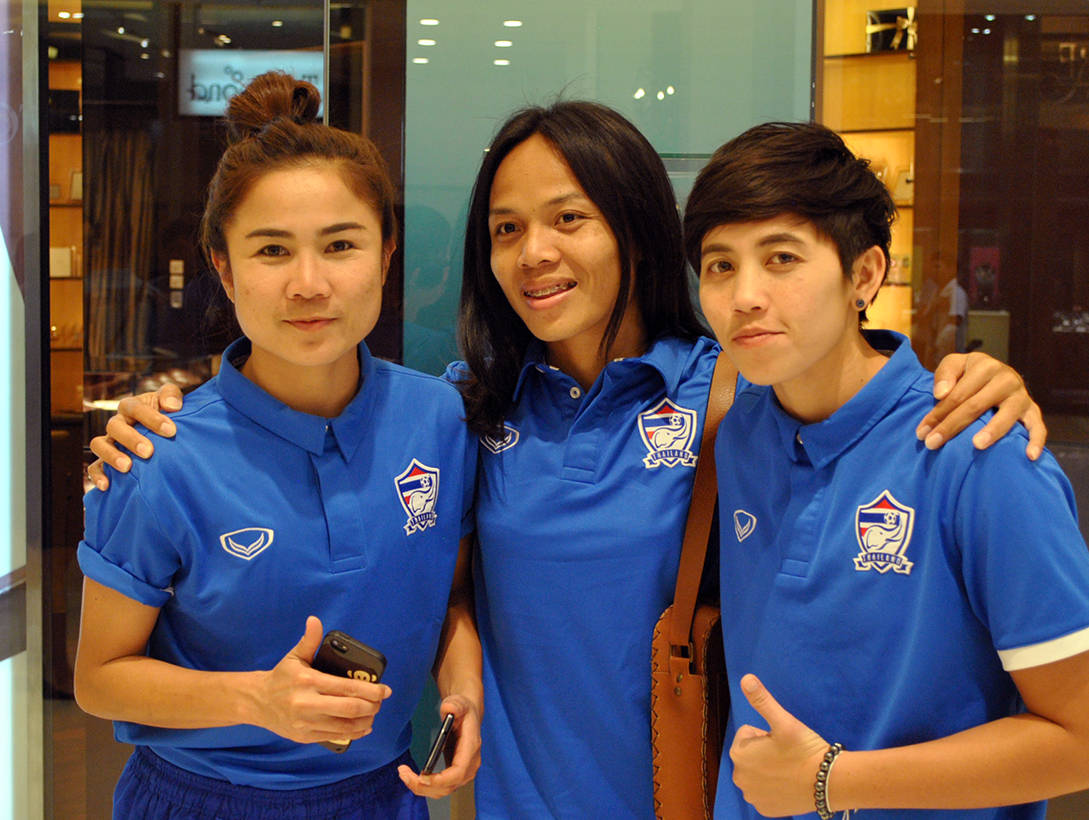 Sunisa, Kanjana, Duangnapa